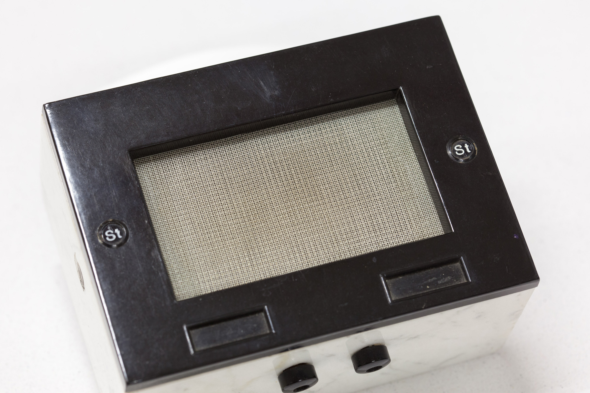 Transverse current coal microphone by Steinitz, 1927. Museum für Kommunikation, Frankfurt, Germany. Photo by Maximilian Schönherr with help from Lioba Nägele.